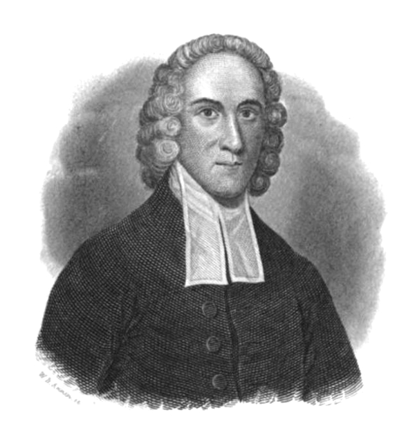 An engraving from the front-piece of a biography of Jonathan Edwards.